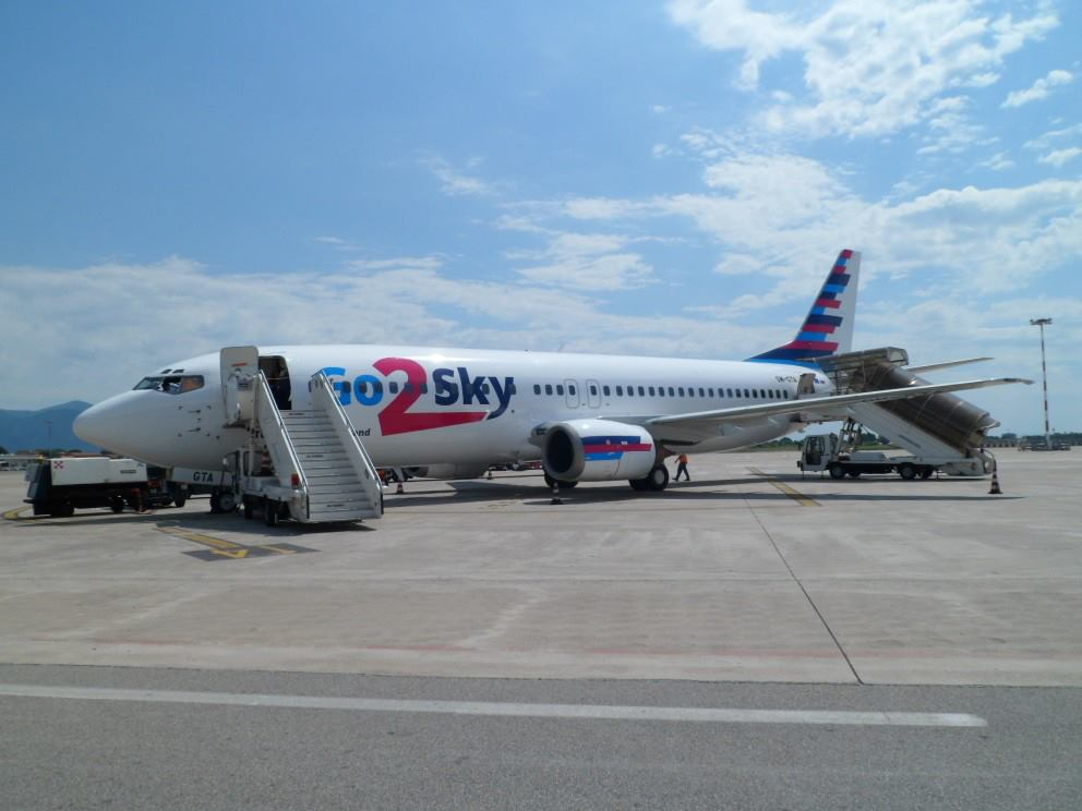 Go2Sky plane ready for Boarding.